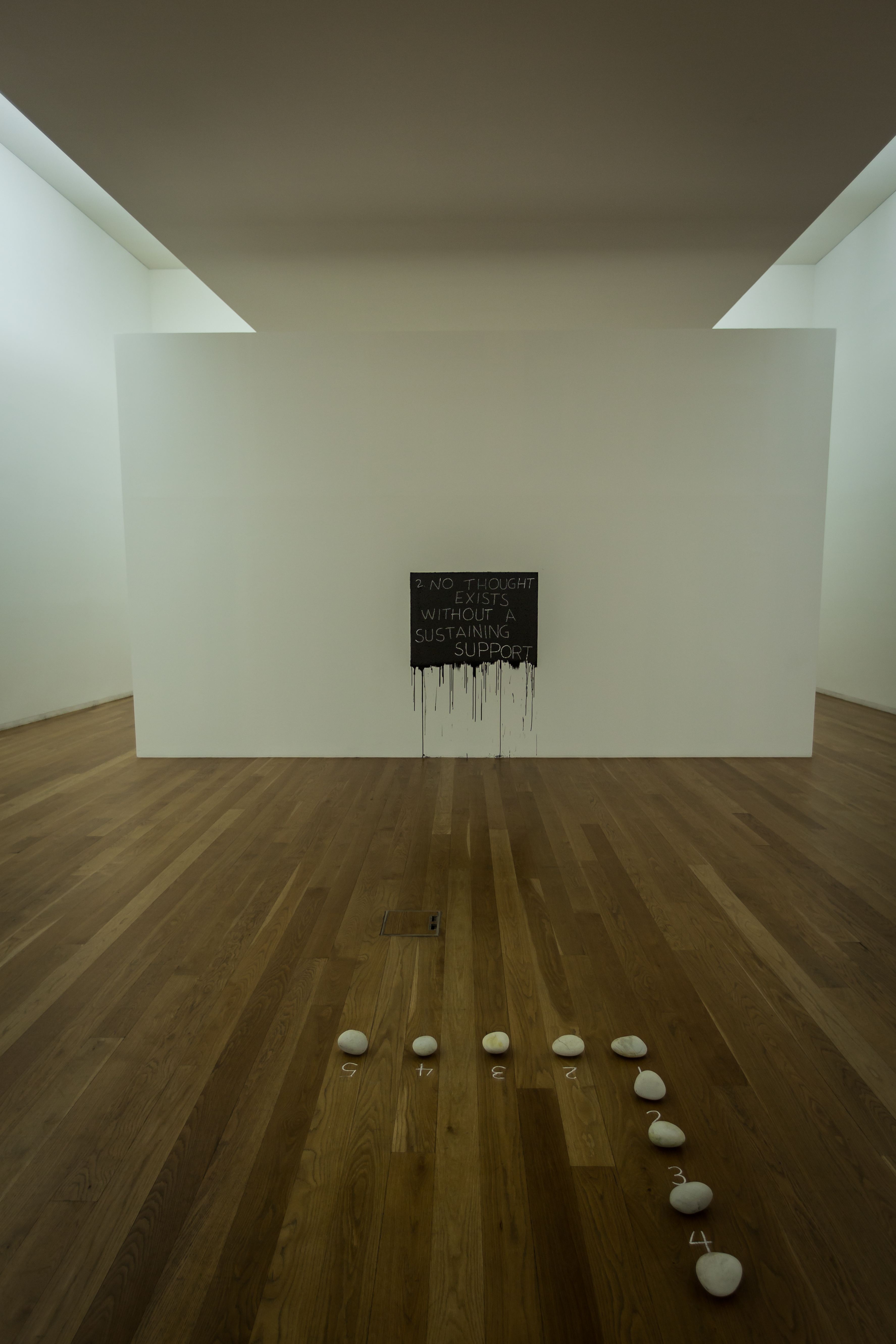 Mel Bochner: If the colour changes